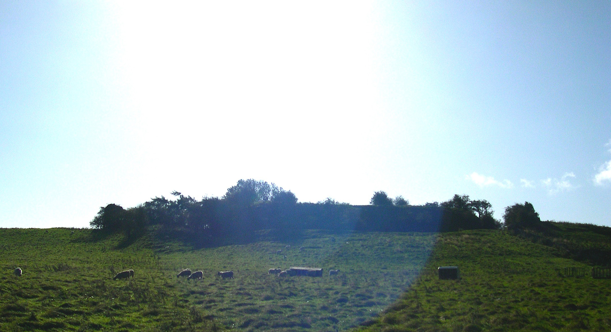 Remains of the Norman Motte-and-Bailey fort at Middleham, North Yorkshire